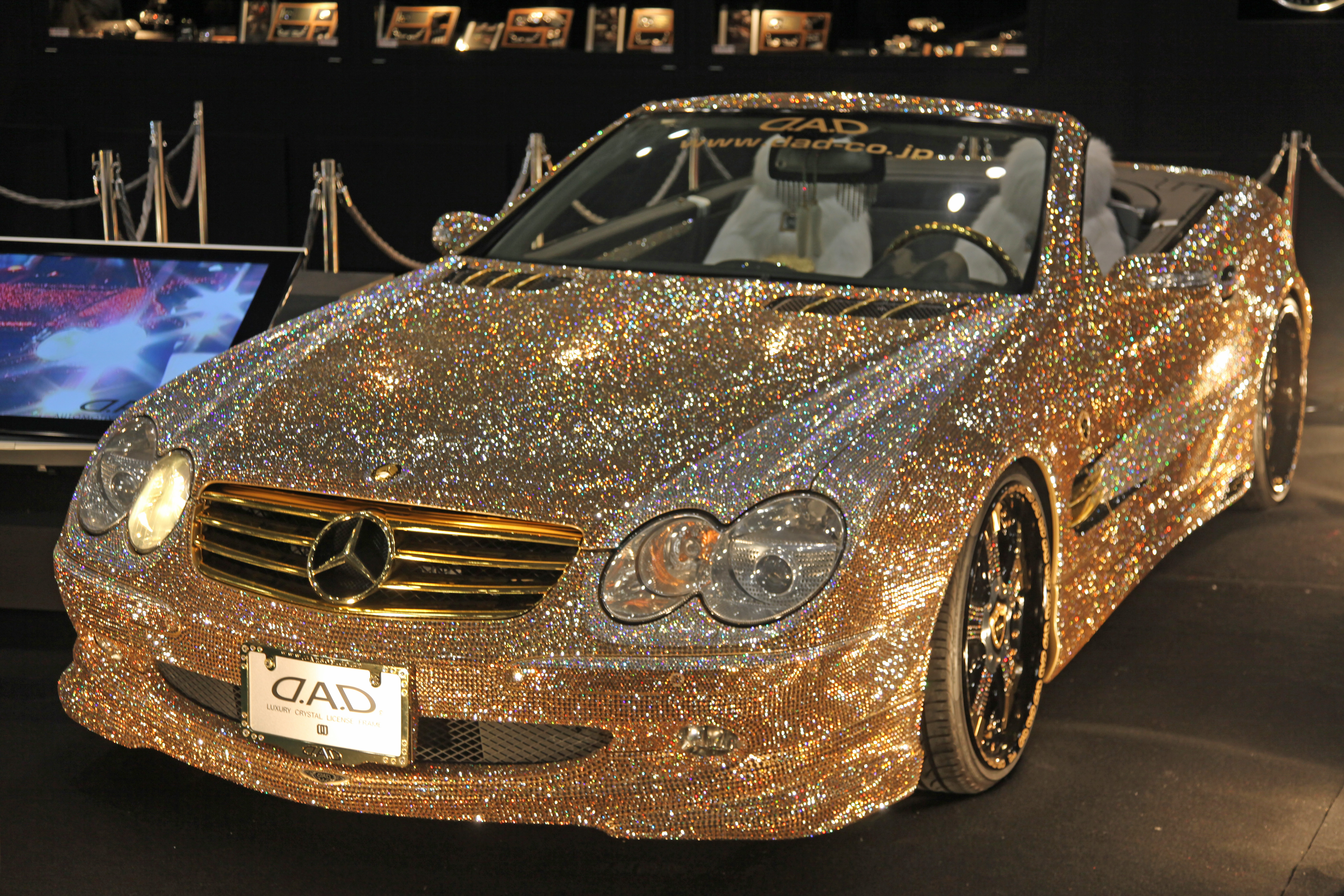 Mercedes at Tokyo auto salon